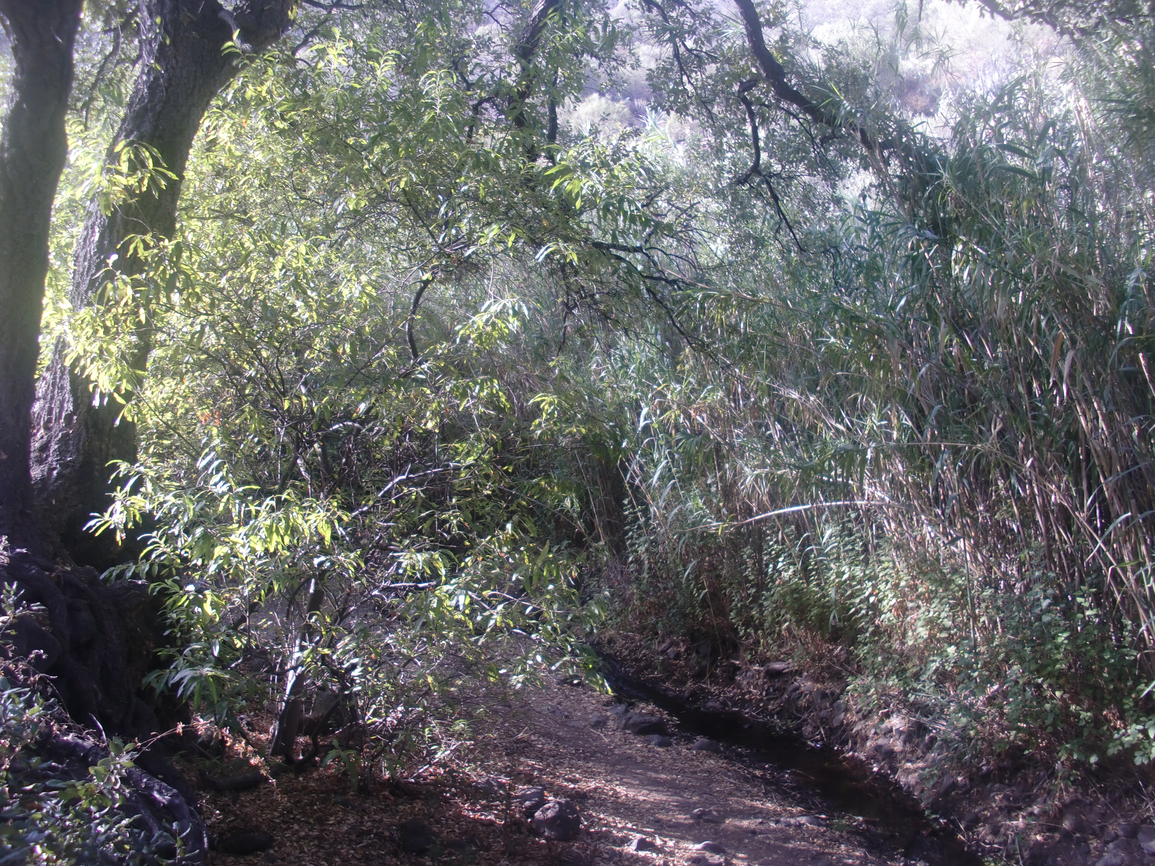 "Barranco de los Cernícalos" (Ravine of the Kestrels) is a ravine in Telde-Canary Islands, with a relictic forest composed basically by wild olives and willows. A small stream gives life to this place which is plenty of endemic flora and fauna.